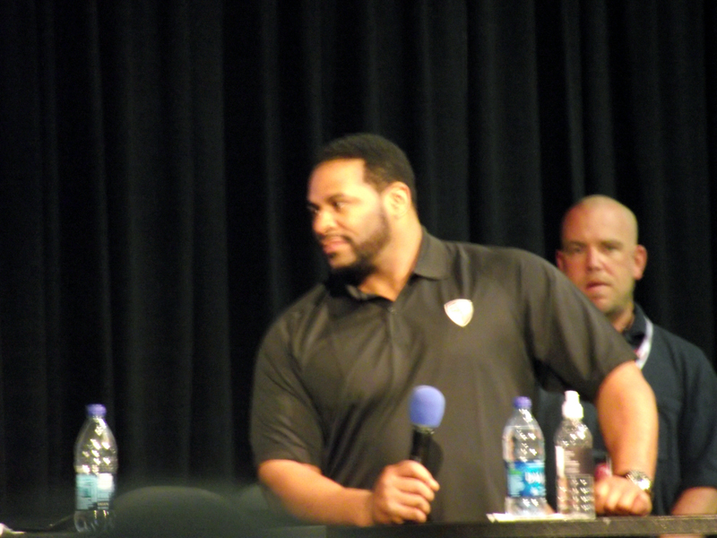 Jerome Bettis speaking at Nashville Sportsfest